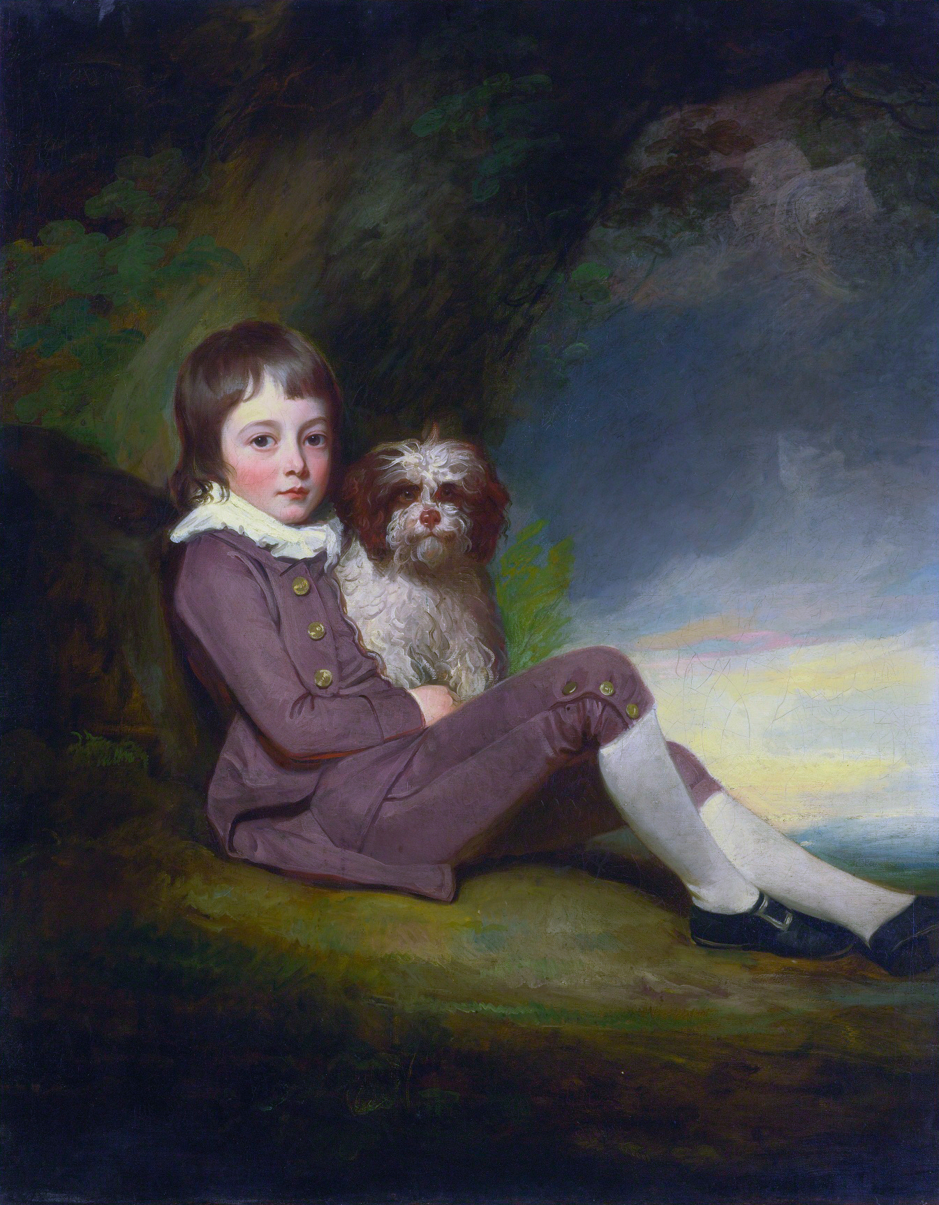 George, Lord Brooke (1772–1786), son of George Greville, 2nd Earl of Warwick oil on canvas 128 x 101.8 cm